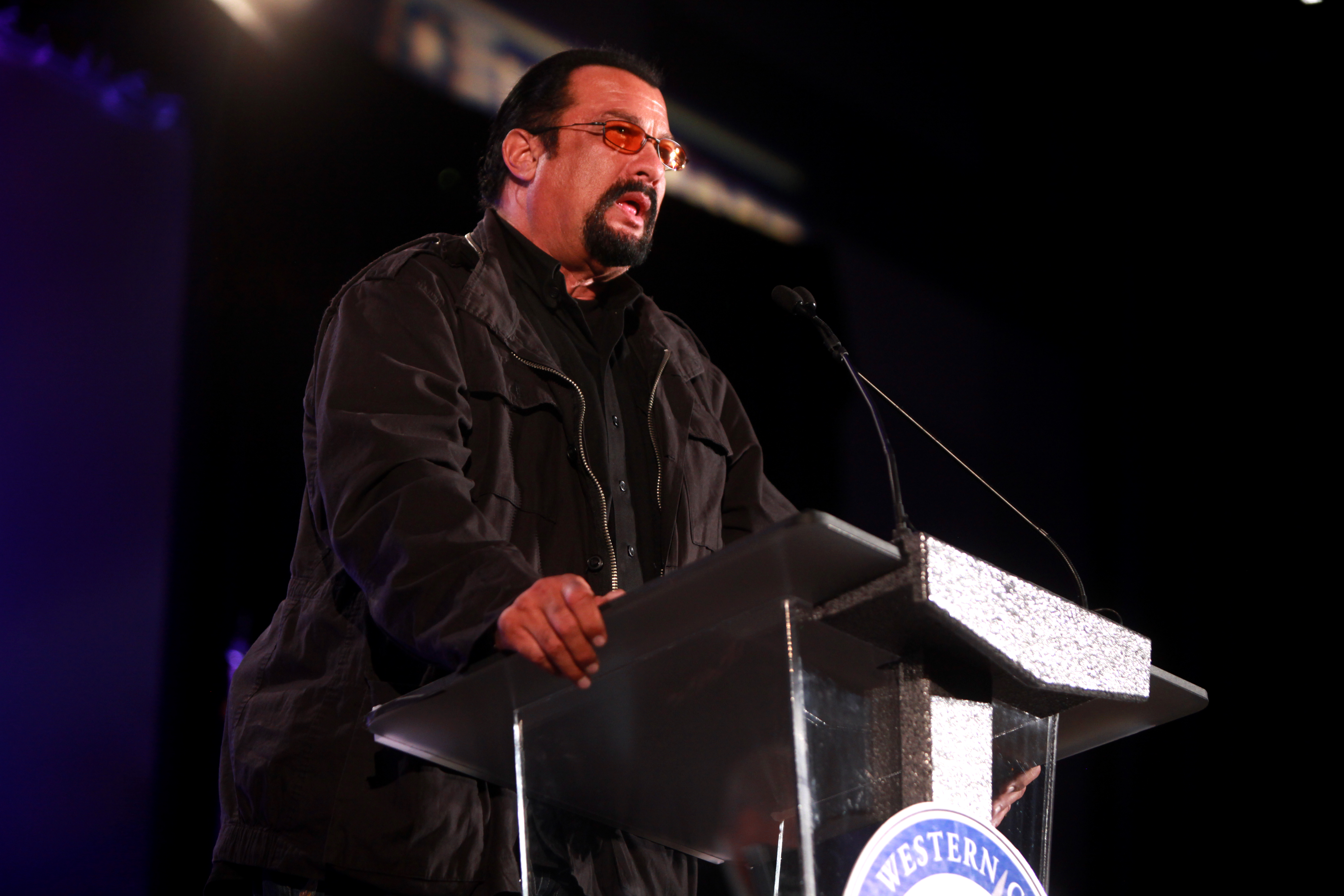 Steven Seagal speaking at the 2014 Western Conservative Conference at the Phoenix Convention Center in Phoenix, Arizona. Copyright © Western Center for Journalism/Gage Skidmore.